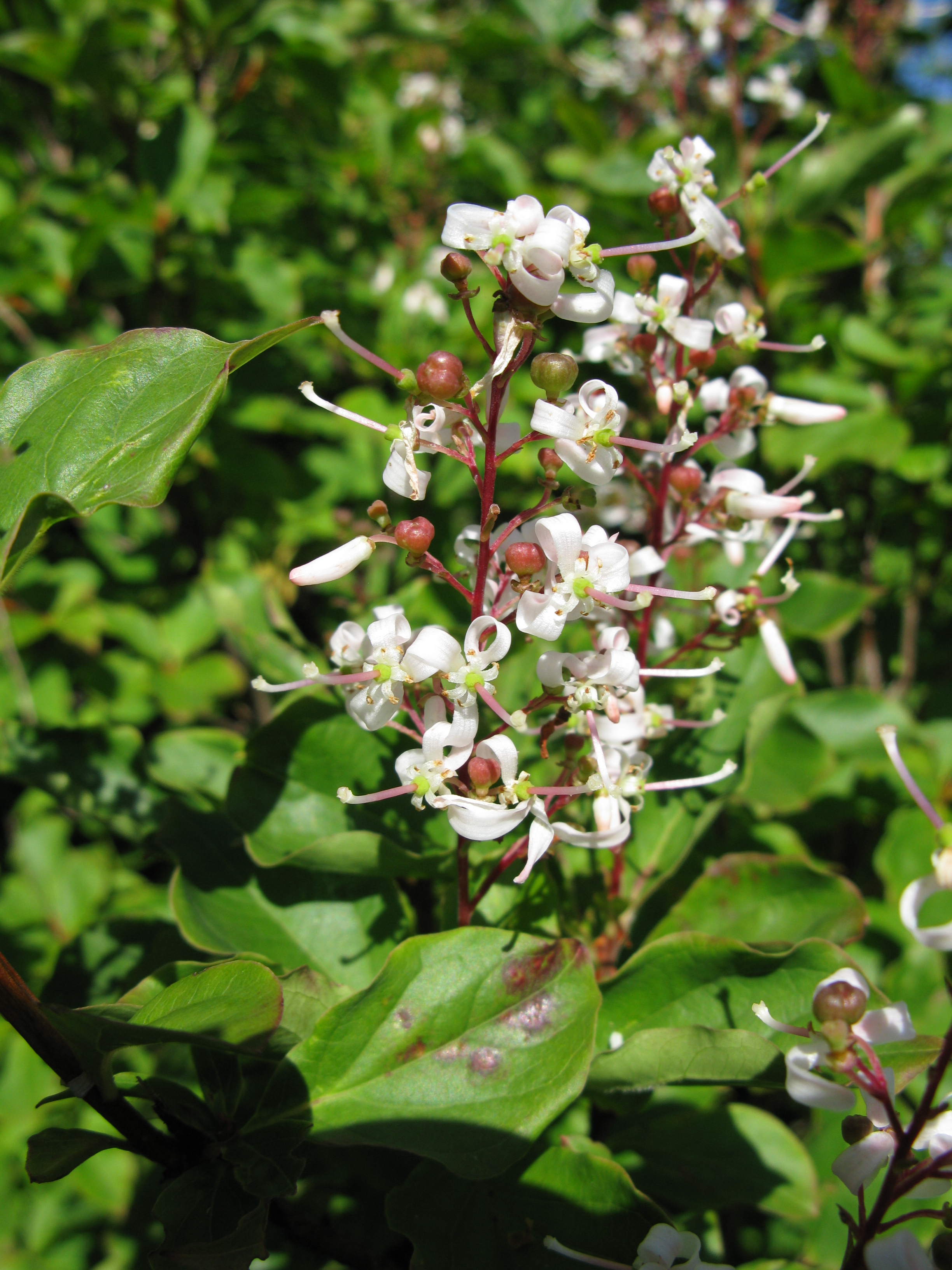 Elliottia paniculata, Aizu area, Fukushima pref., Japan